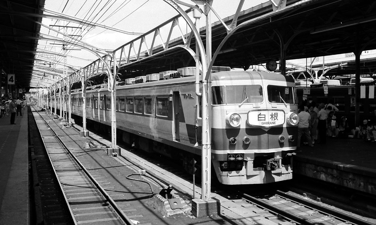 A JNR 157 series EMU on a Shirane limited express service at Ueno Station in Tokyo